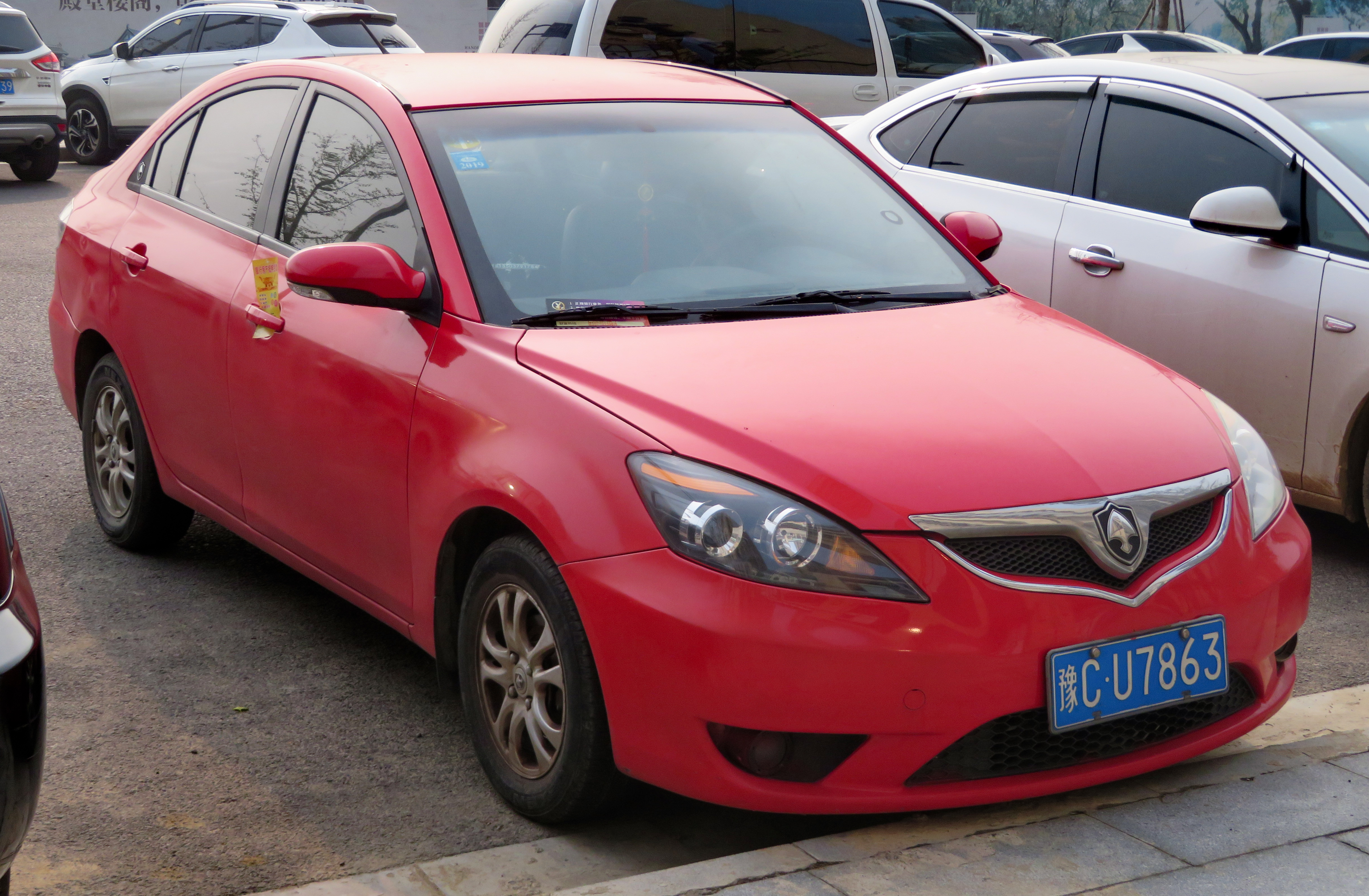 A 2009 Chang'an Alsvin photographed in Xigong District, Luoyang, Henan province, China